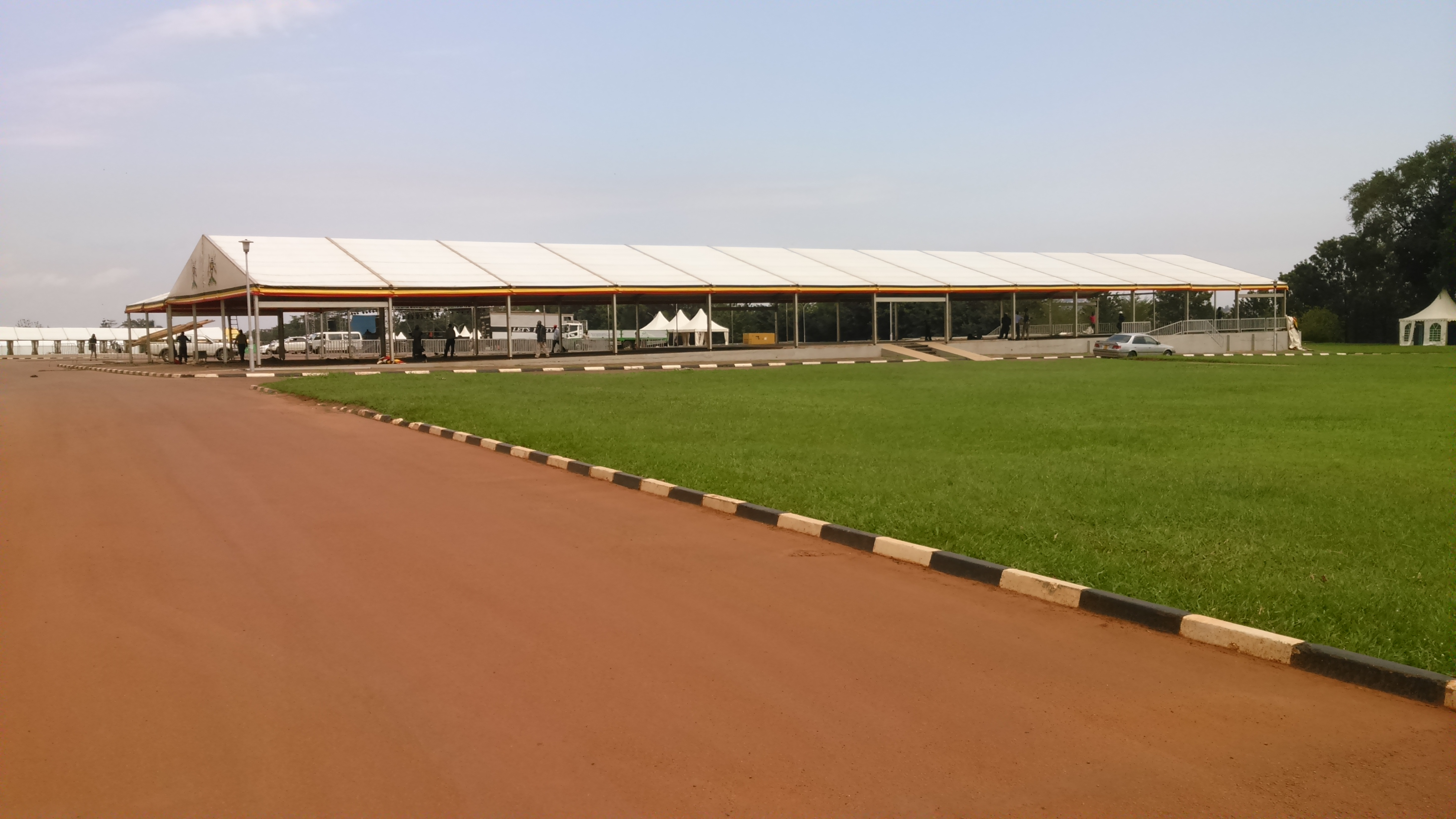 A section of the commemoration grounds of independence of Uganda's flag on the 9th of October 1962